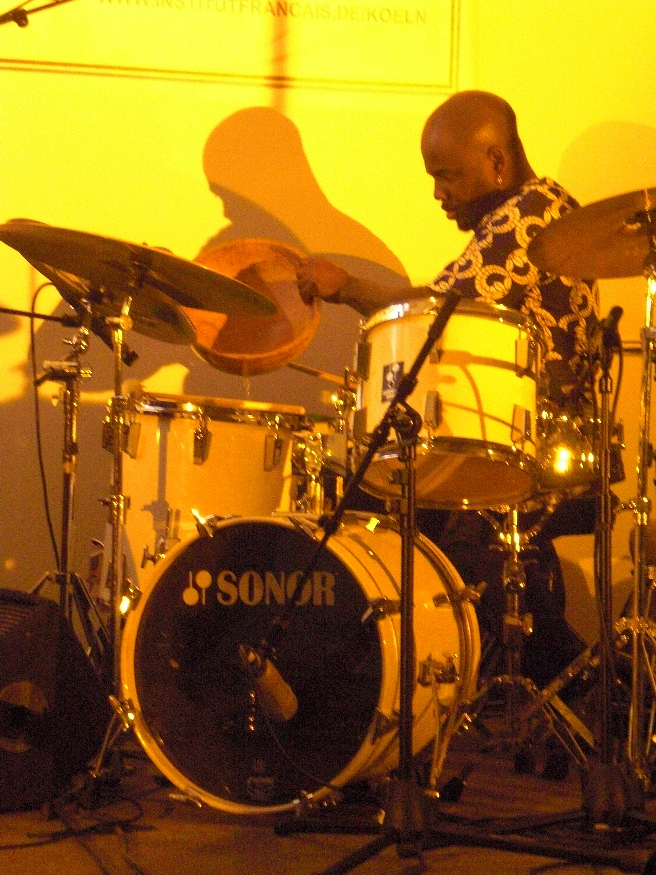 Emile Biayenda in concert with Benoit Delbecq Trio at Vive Le Jazz festival in Cologne, Germany, Oct 15th, 2011